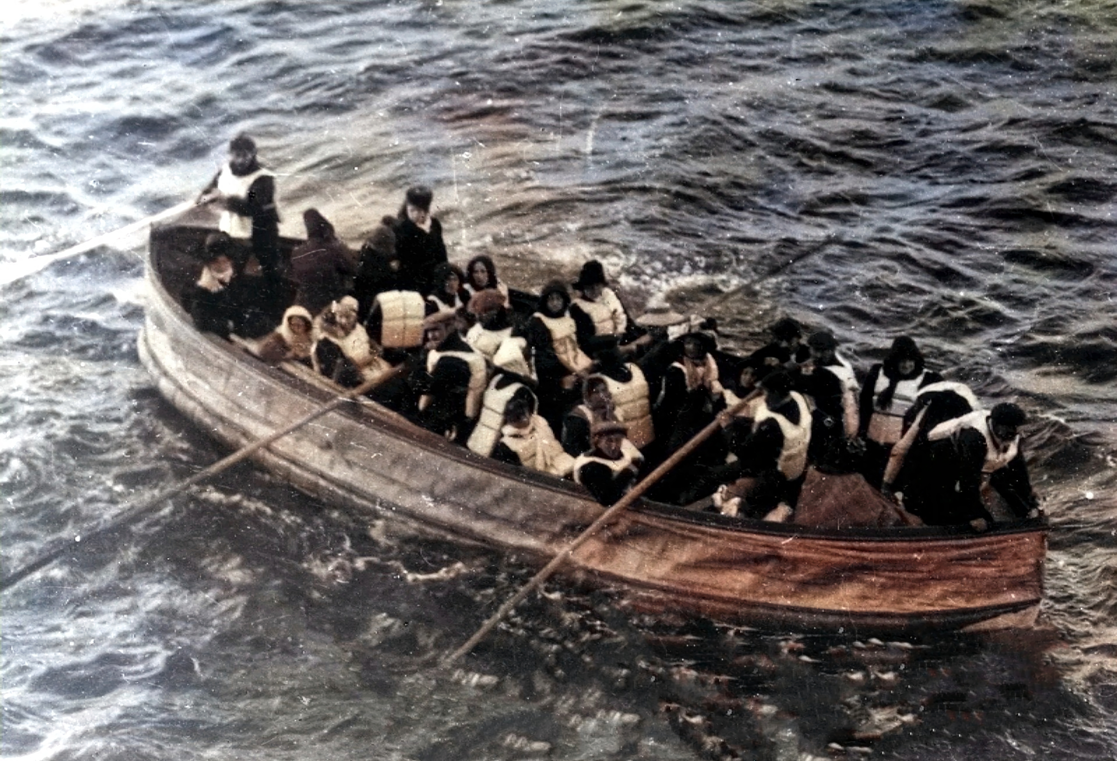 last lifeboat successfully launched from the Titanic